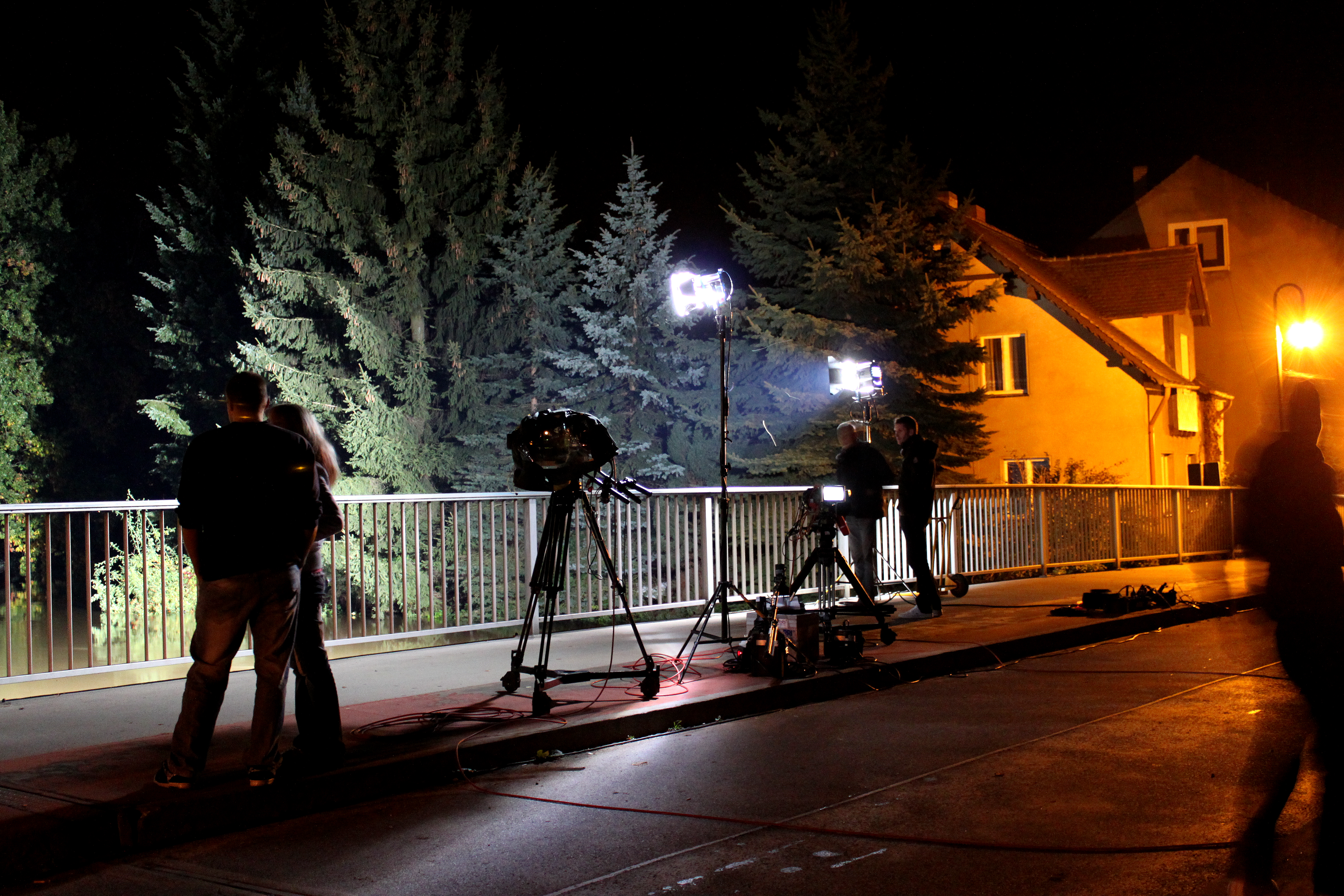 in a break of TV-lifereport from the flood of Schwarze Elster river.